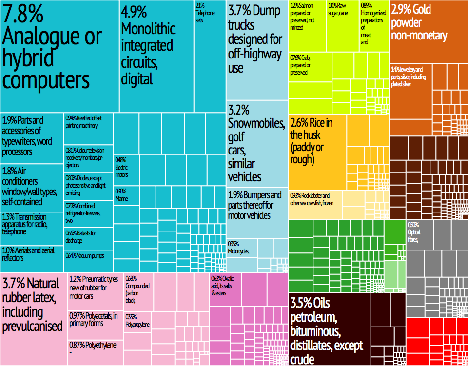 Thailand Export Treemap from MIT Harvard Economic Complexity Observatory